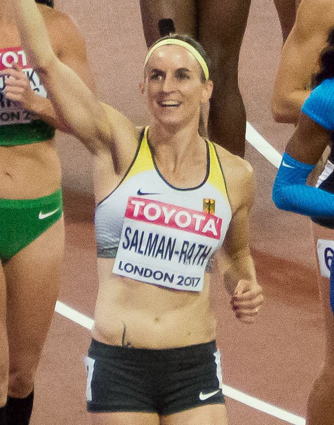 Hepathletes at 2017 World Championships in Athletics